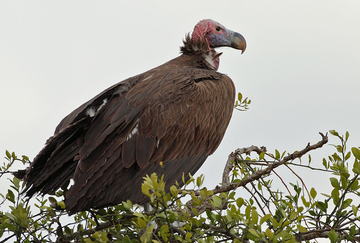 A Lappet-faced Vulture in Masai Mara National Reserve, Kenya.